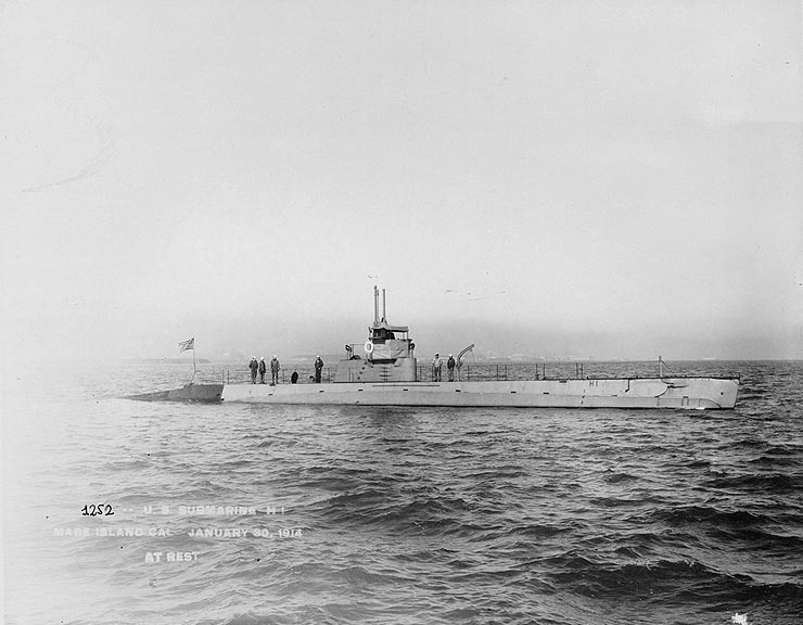 USS H-1 (Submarine # 28) off the Mare Island Navy Yard, California, 30 January 1914. Original caption: "Photo # NH 69853 USS H-1 off Mare Island, California, 30 January 1914" — removed caption